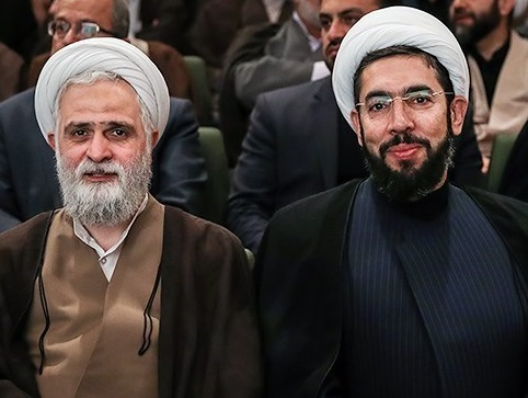 Muhammad Muhammadian (Left) and Mostafa Rostami (Right) (as the previous and the current chief of the [agency] institution of "the supreme leader of Iran" at the universities.